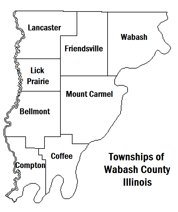 Map of various townships of Wabash County, Illinois.